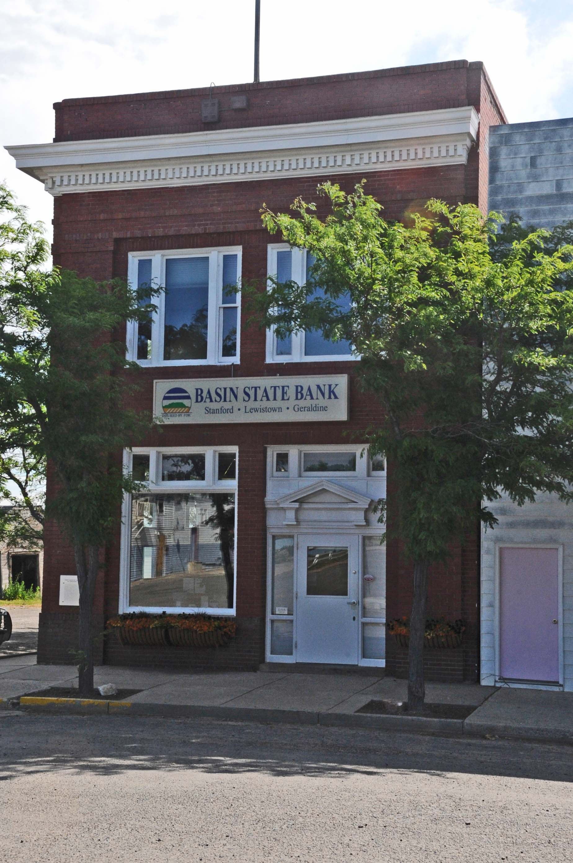 THE BANK WAS BUILT AROUND 1914 AND SERVED THE FARMERS IN THE AREA. BECAUSE OF WISE MANAGEMENT IT SURVIVED THE DROUGHT OF THE 1920’S AND THE DEPRESSION OF THE 1930’S. IT WAS ONE OF THE FIRST BANKS TO BE ALLOWED TO OPEN AFTER THE FEDERAL BANK HOLIDAY OF 1933